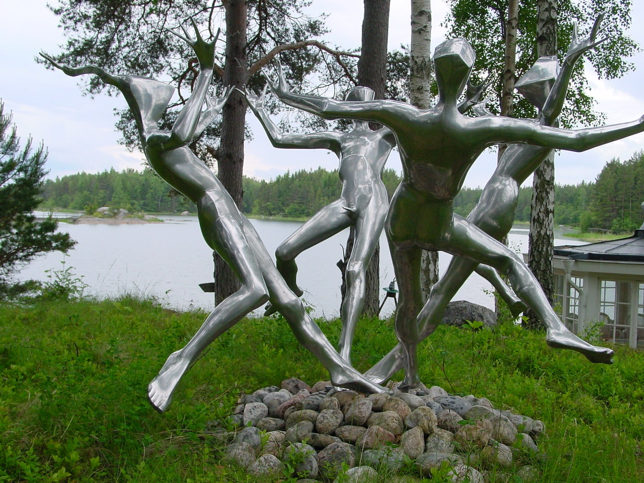 Four Children Fountain, Eskön, Sweden Author: Sandor Kiss